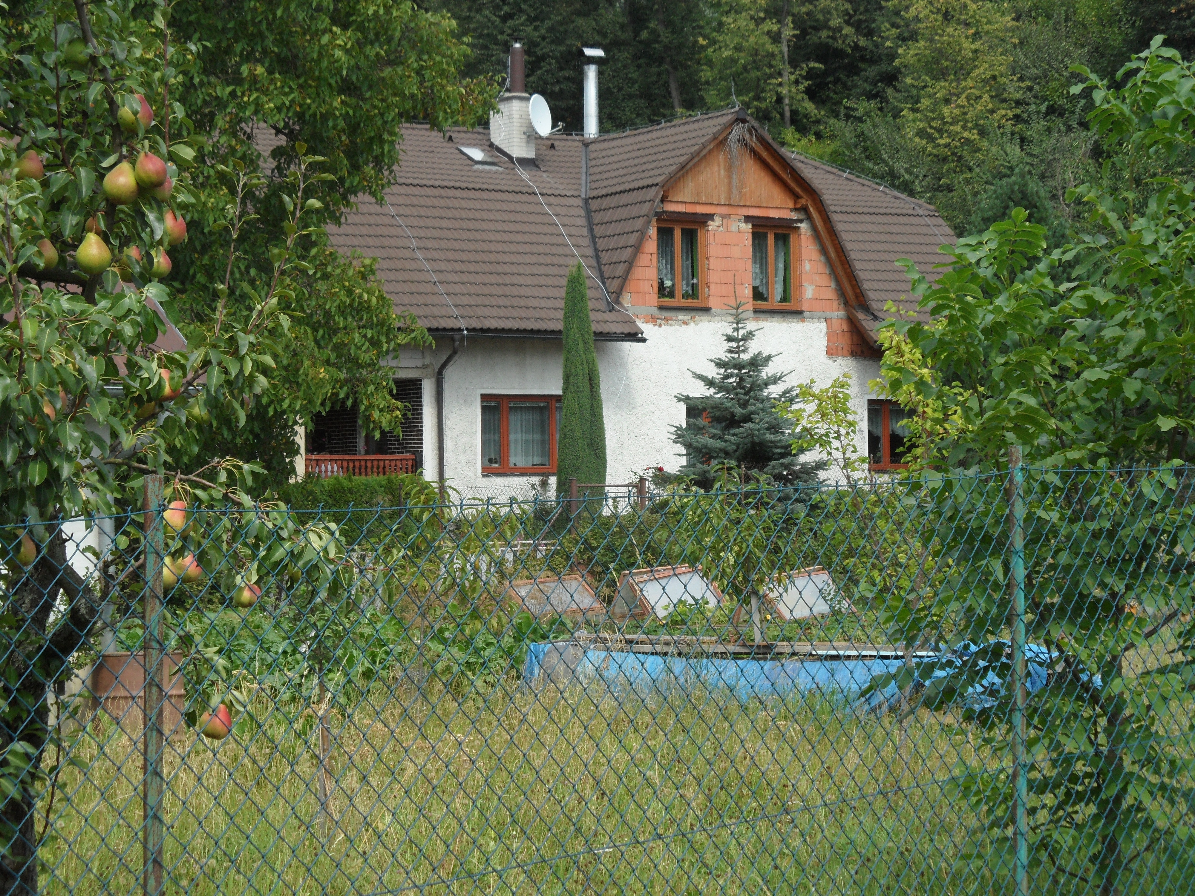 Kociánov: house. Šumperk District, the Czech Republic